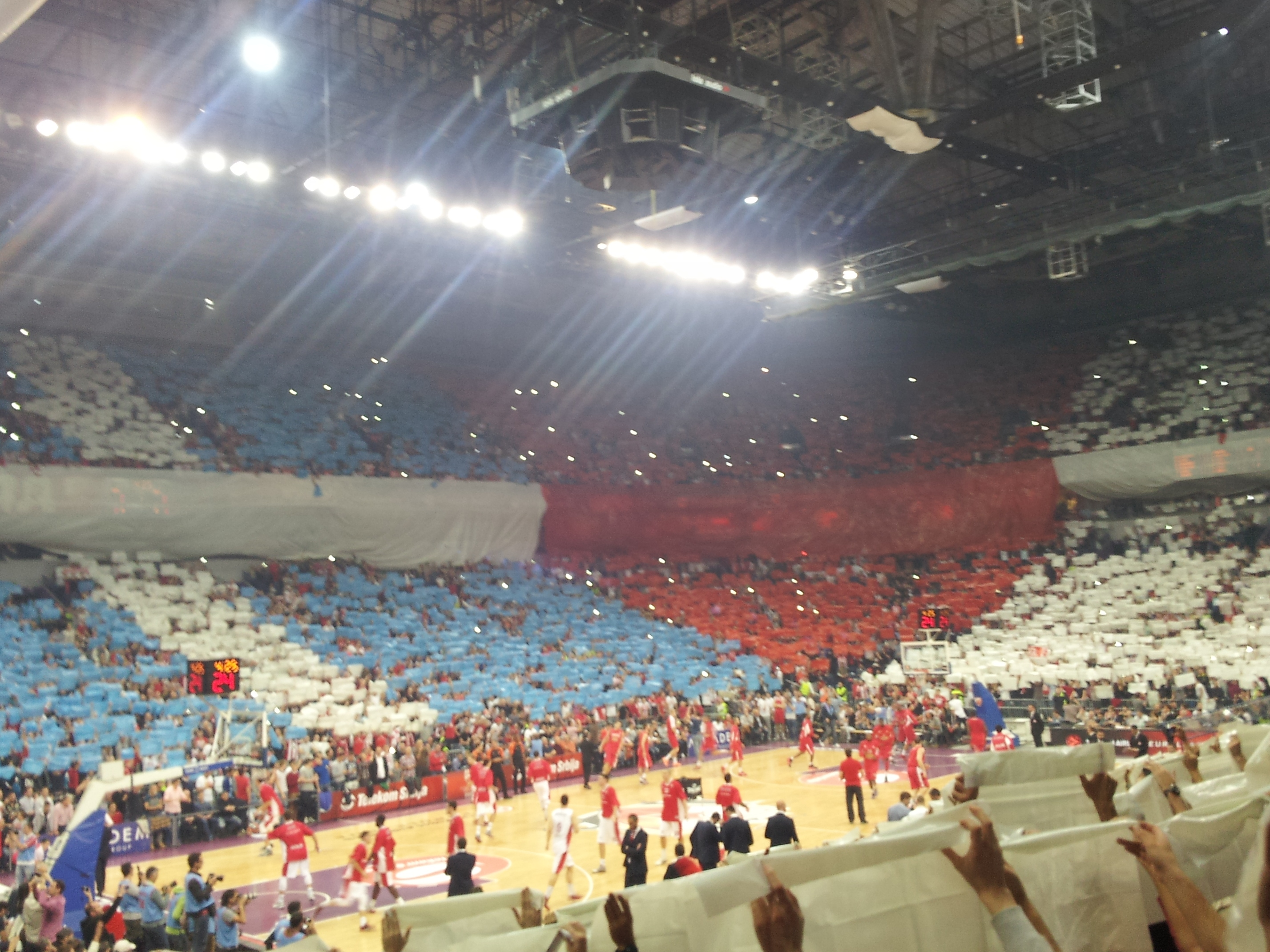 Euroleague game KK Crvena zvezda - Olympiacos